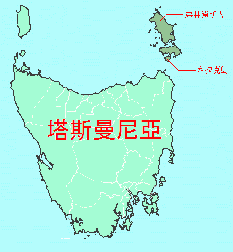 Illustration map for Flinders Island in Tasmania, Australia